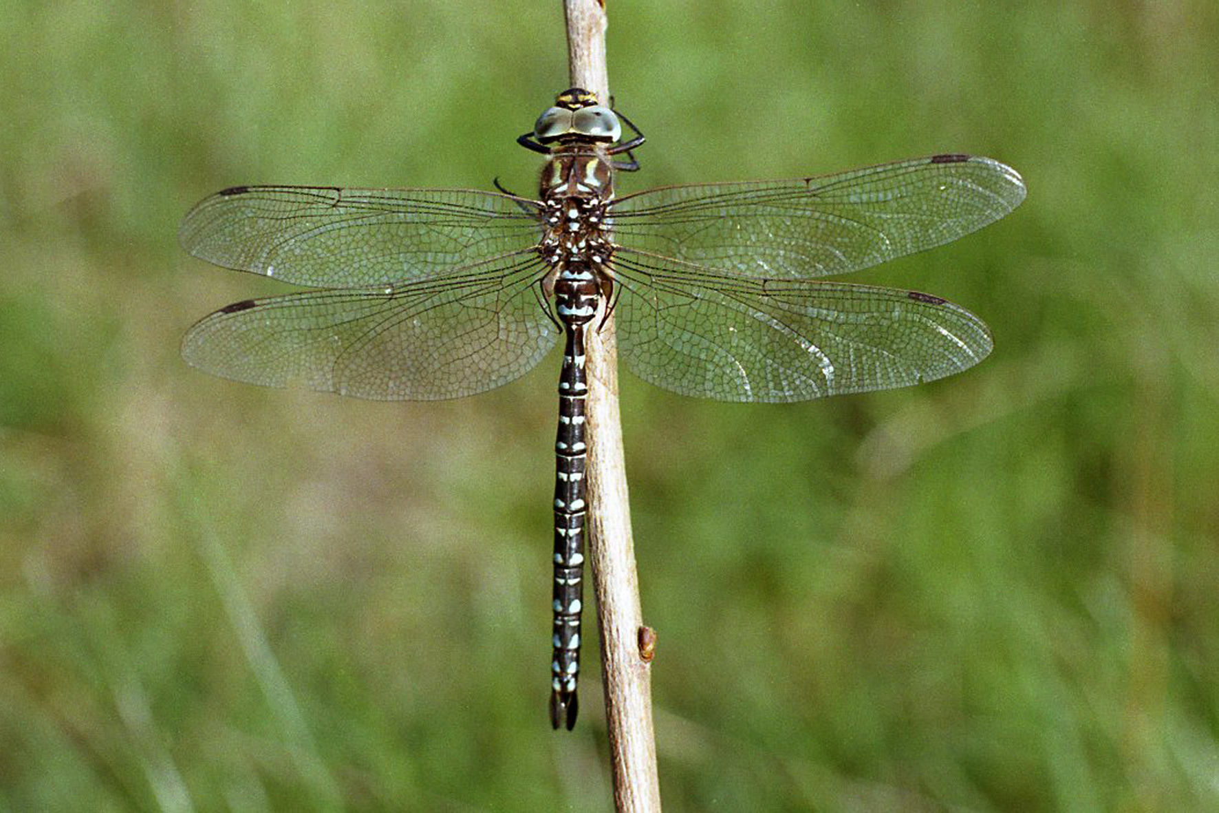 Hochmoor-Mosaikjungfer ♂ (Aeshna subarctica)